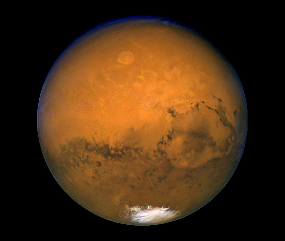 Mars photographed by Hubble Space Telescope